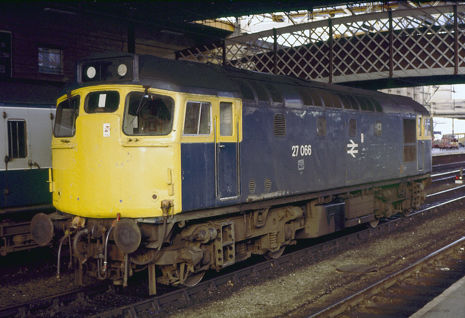 Carlisle 26066